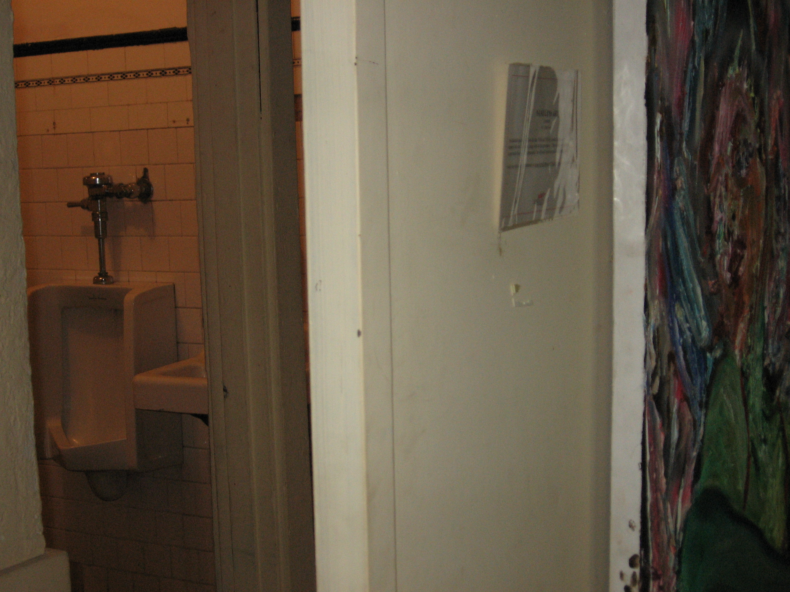 Urinal in the Museum of Bad Art in Dedham, Massachusetts